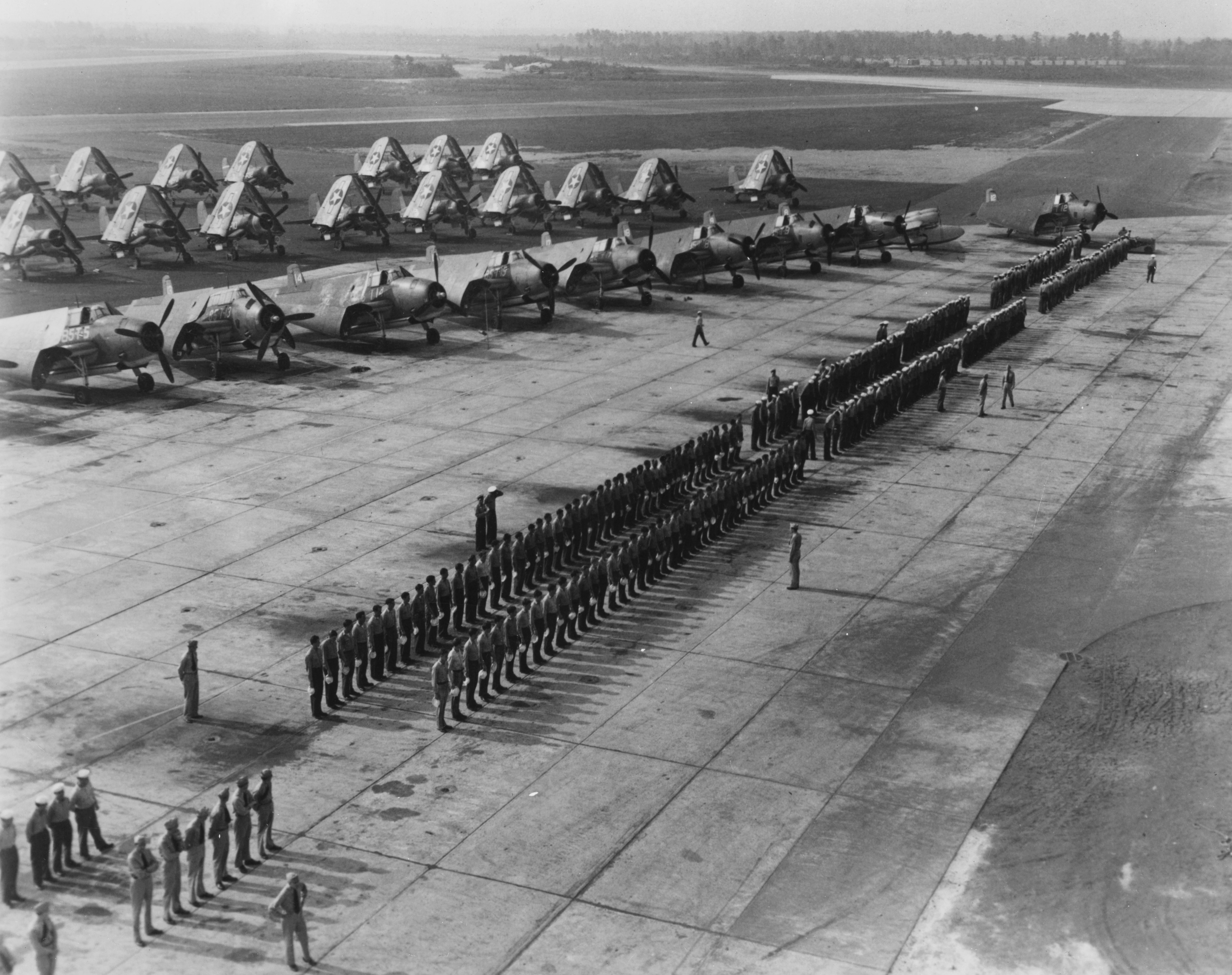 View of an inspection at Otis Field located at Camp Edwards in Massachusetts (USA), on 12 August 1944. Due to the "85-T-" markings on the Grumman TBM Avengers, the aircraft probably belonged to Carrier Air Group 85 (CVG-85) which would later deploy aboard the aircraft carrier USS Shangri-La (CV-38). Visible are nine TBM Avengers, 16 Vought F4U Corsairs, and a single Grumman J4F Widgeon amphibian. In the background is a Lockheed PV-1 Ventura patrol bomber.